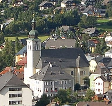 View of Tamsweg in Lungau district, Salzburg state, Austria, seen from Saint Leonhard church